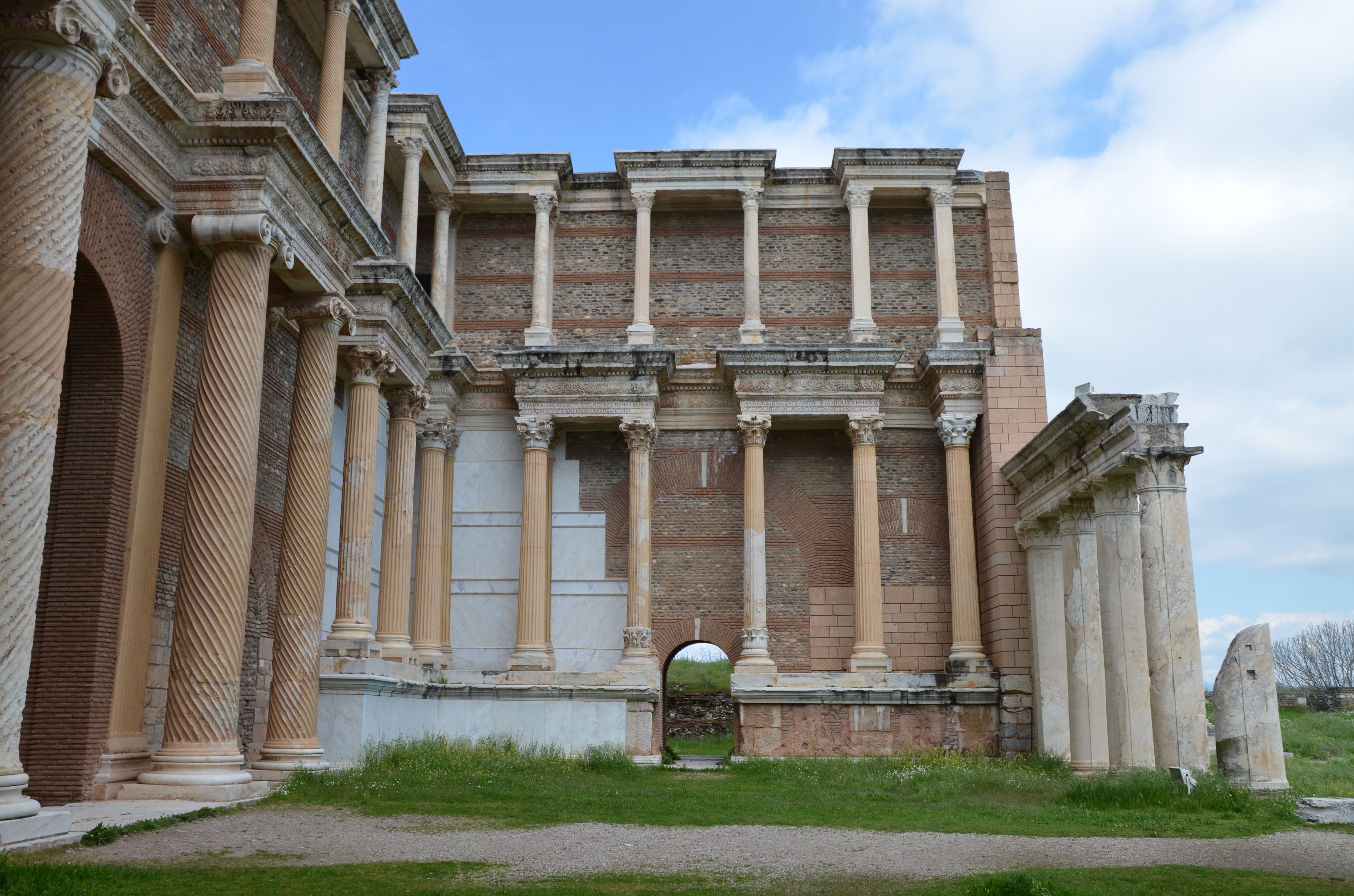 The Bath-Gymnasium complex at Sardis, probably completed in the late 2nd - early 3rd century AD, Sardis, Turkey